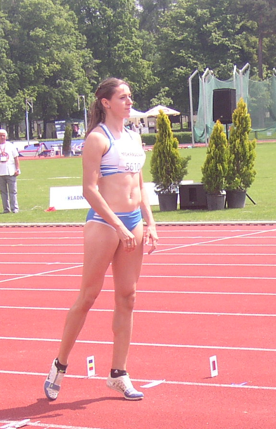 Athlete Lucia Mokrášová of Slovakia preparing for her attempt in long jump during women's heptathlon at 7th edition of the TNT Express Meeting (IAAF World Combined Events Challenge Meeting, Sletiště Stadium, Kladno, Czech Republic, 9 June 2013).